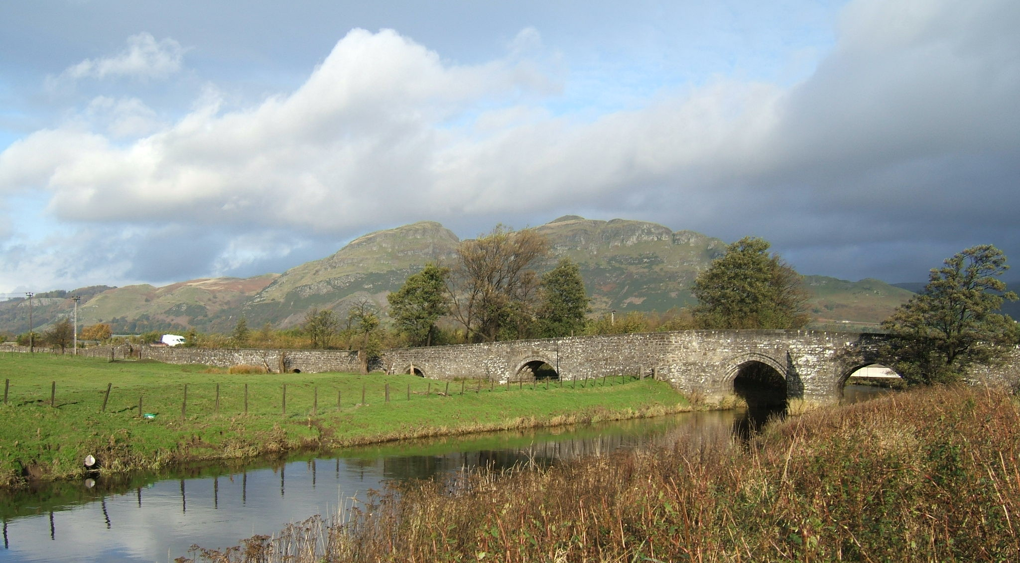 Tullibody Old Bridge, over the River Devon near Tullibody, Clackmannanshire, Scotland, dates from the early 16th century. Disused after 1915, it was restored for use by walkers and cyclists in 2003 in accordance with conditions laid down by Historic Scotland. It is one of Clackmannanshire's Category A listed buildings. Location of camera: GB Grid reference NS 846 950 56.1343N 3.8573W Heading NNW The image also shows Dumyat, 419 m altitude